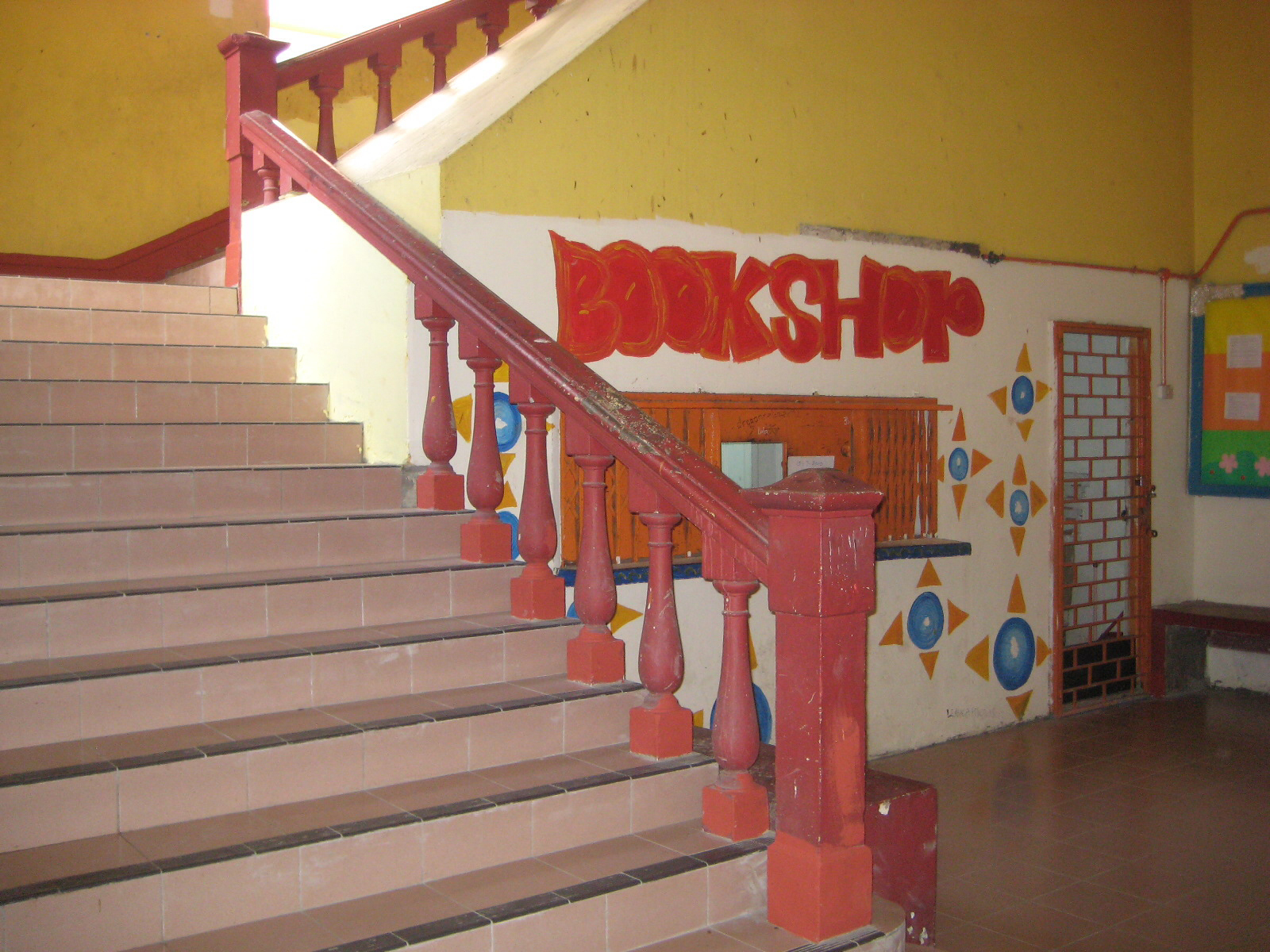 Tangga gaya Gothic pada banggunan utama, Maxwell School